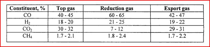 Corex gas analysis